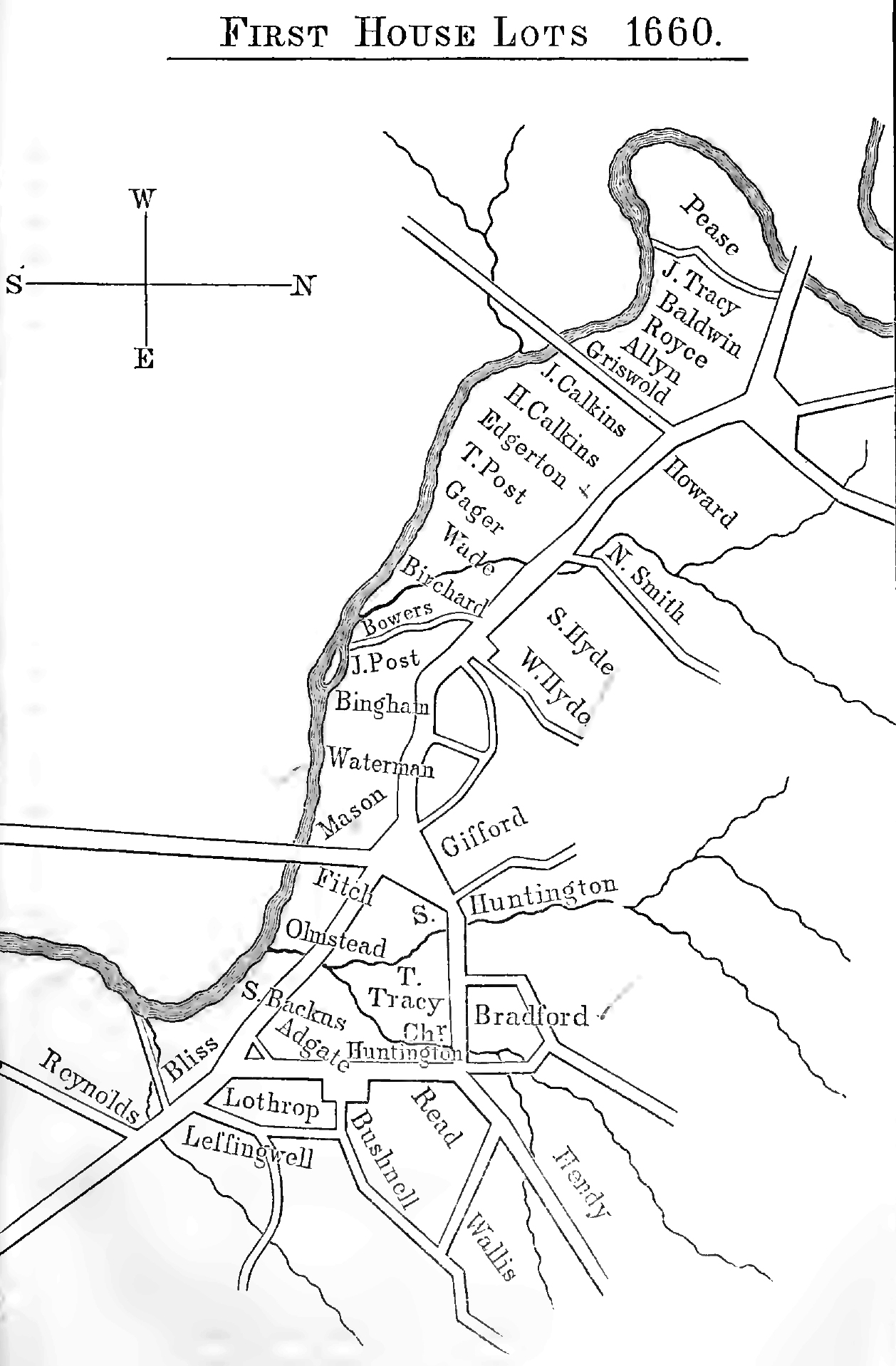 Map of the first house lots in Norwich. Shows location of the founder's homes - Major John Mason and Reverend James Fitch